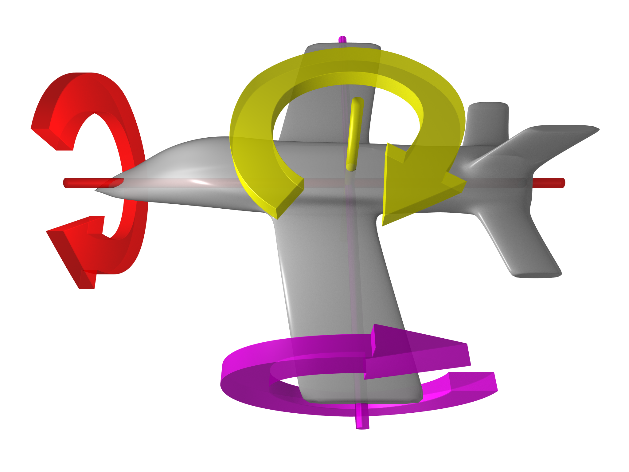 Roll, yaw and pitch axis definition for an airplane.